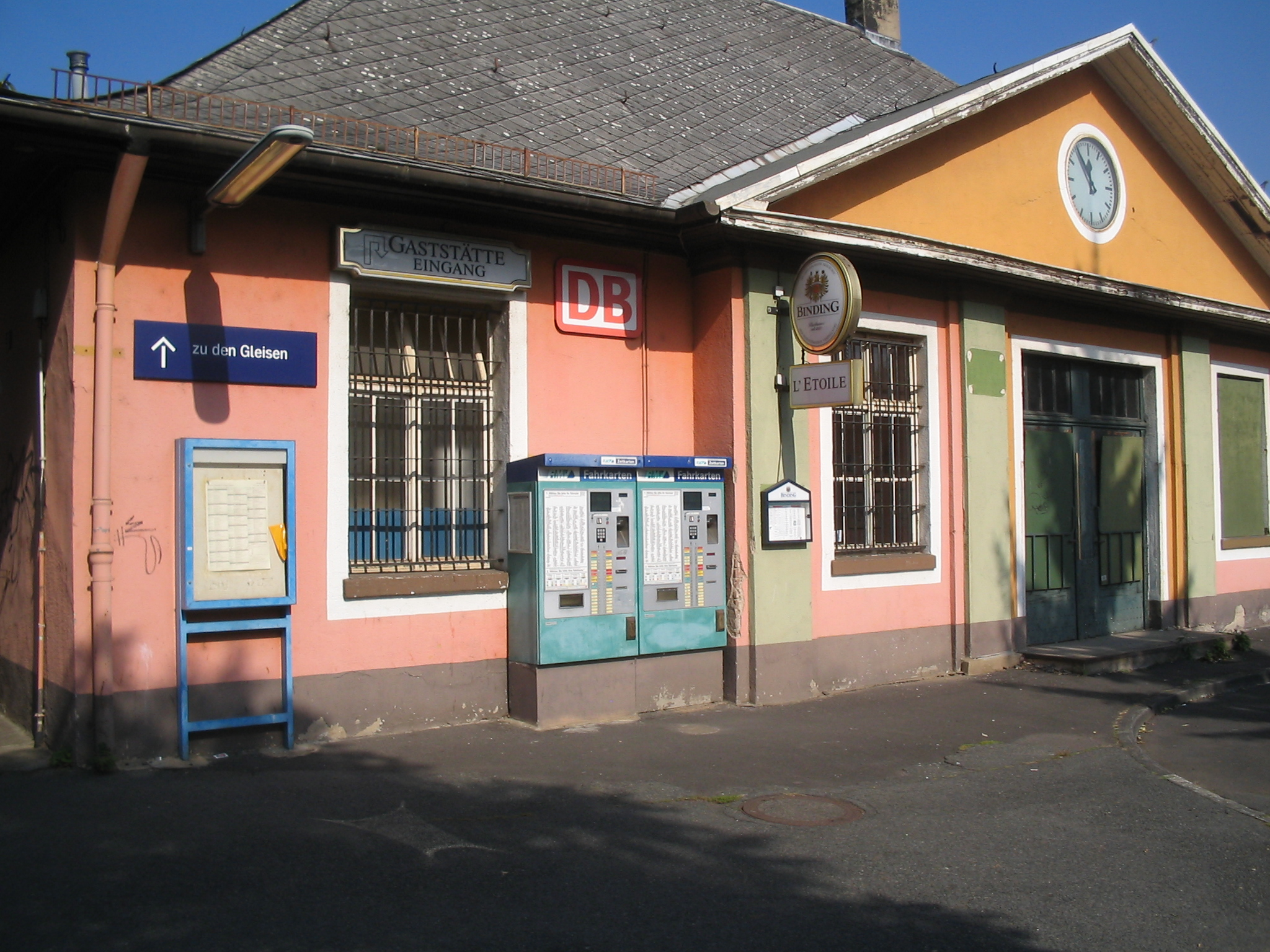 Railway station building Frankfurt-Mainkur. Tickets only from the vending machines